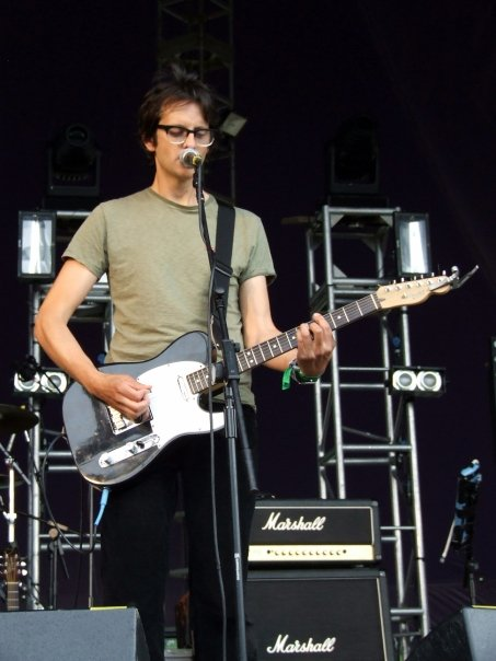 Depicted person: Nick Cope